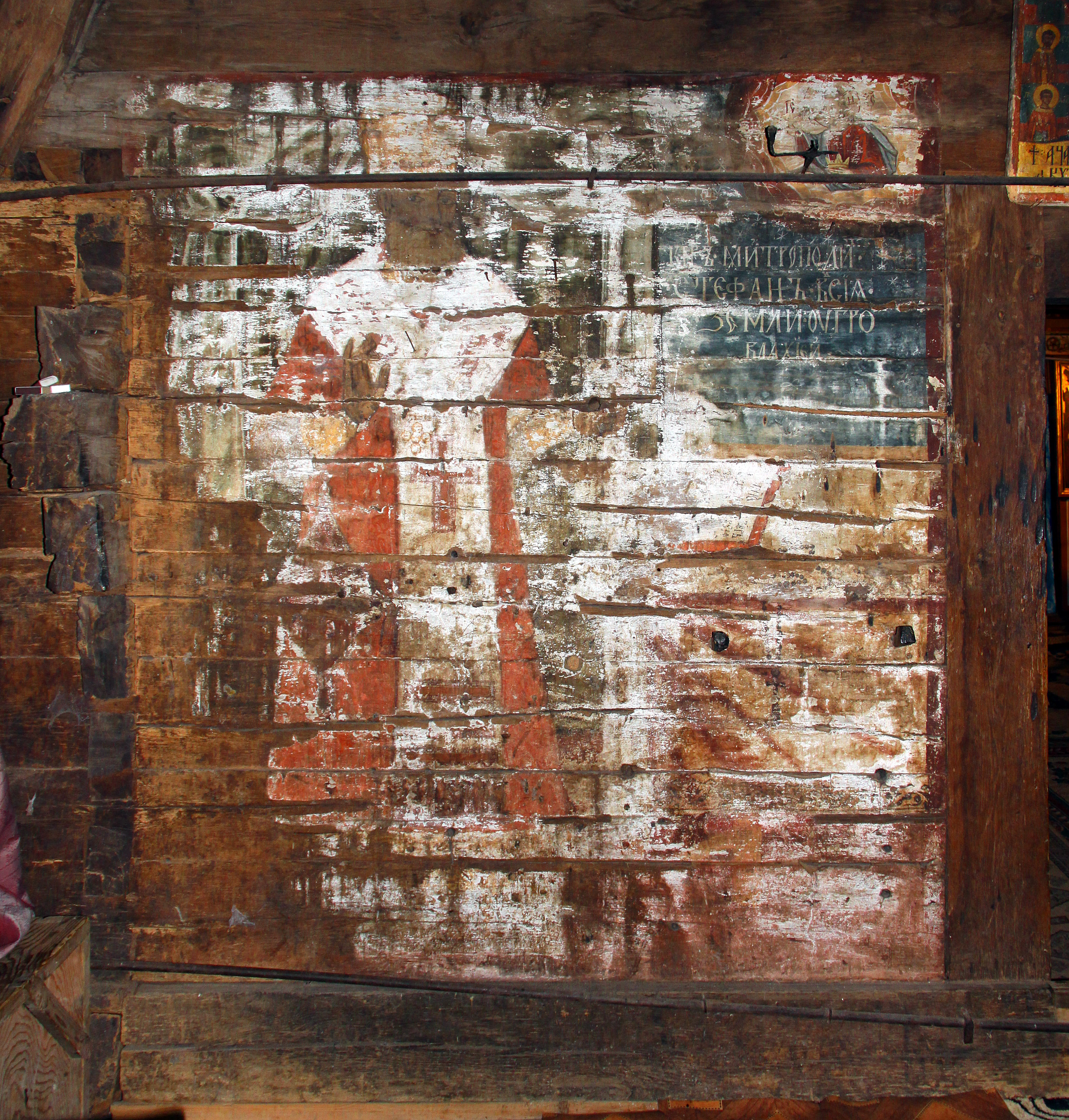 Grămeşti, Pietreni, Vâlcea county, Romania: the wooden church. The picture of Ştefan, bishop of Wallachia, the founder of the church, 1667, inside the narthex.